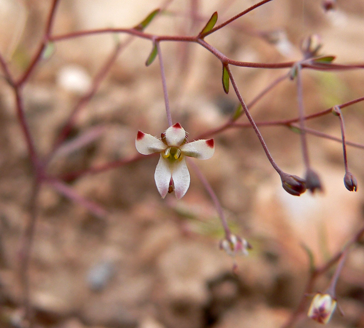 Nemacladus glanduliferus var. orientalis in the desert west of Las Vegas, Nevada (just off the end of Tropicana Avenue)